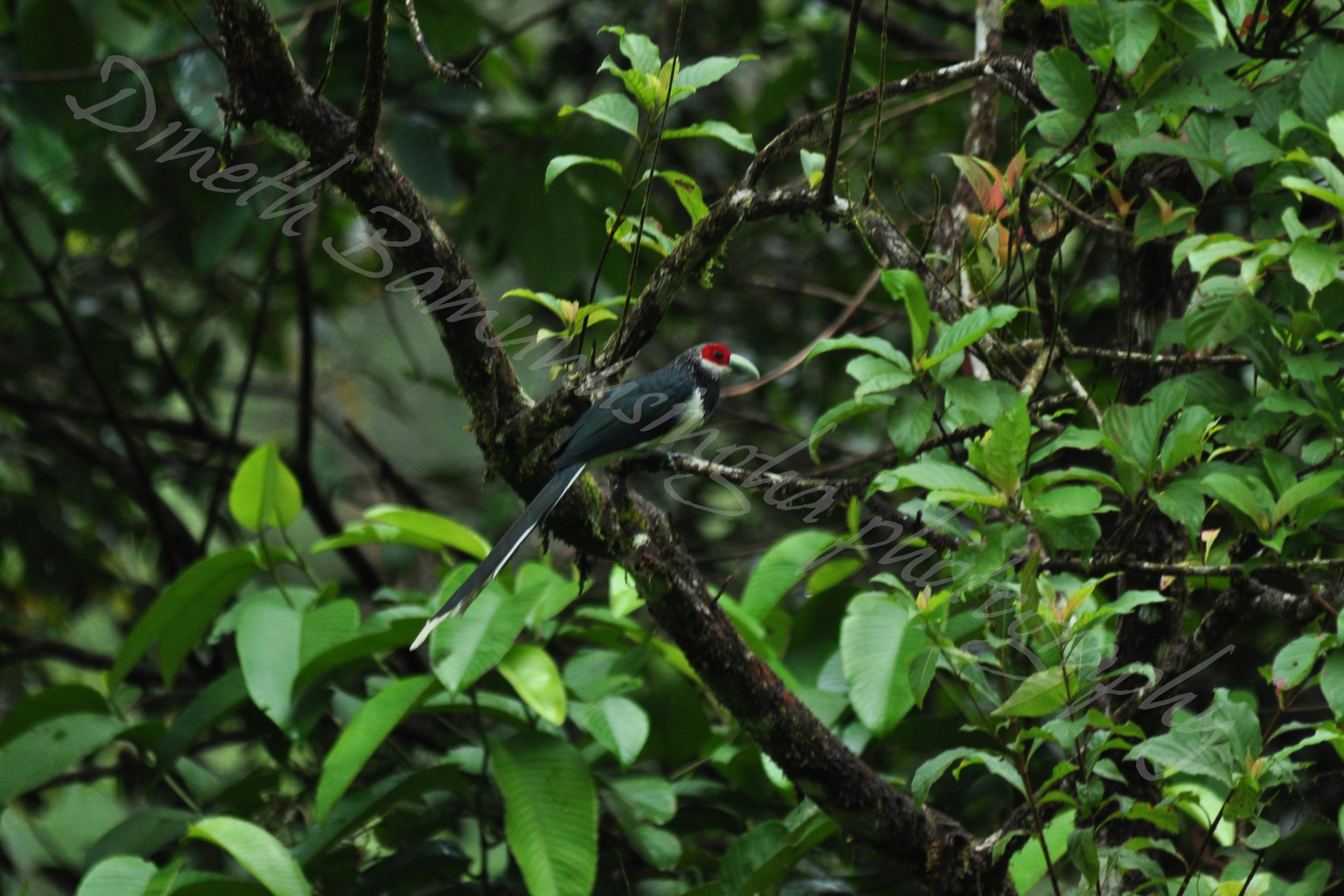 Red Faced Malkoha Location - Sinharaja Rain Forest Photgraphy By - Dineth Bamunusingha